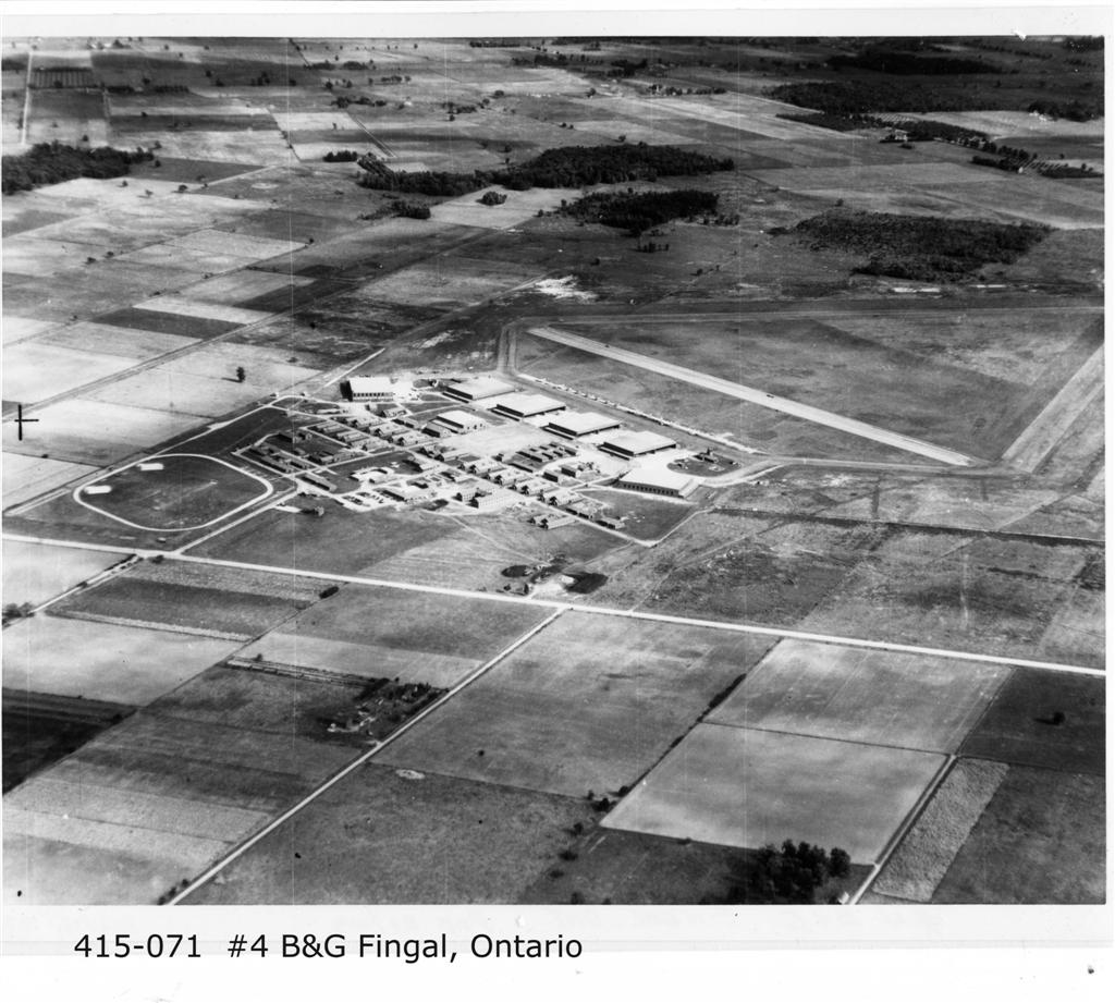 Aerial photograph of RCAF Station Fingal during the second world war.